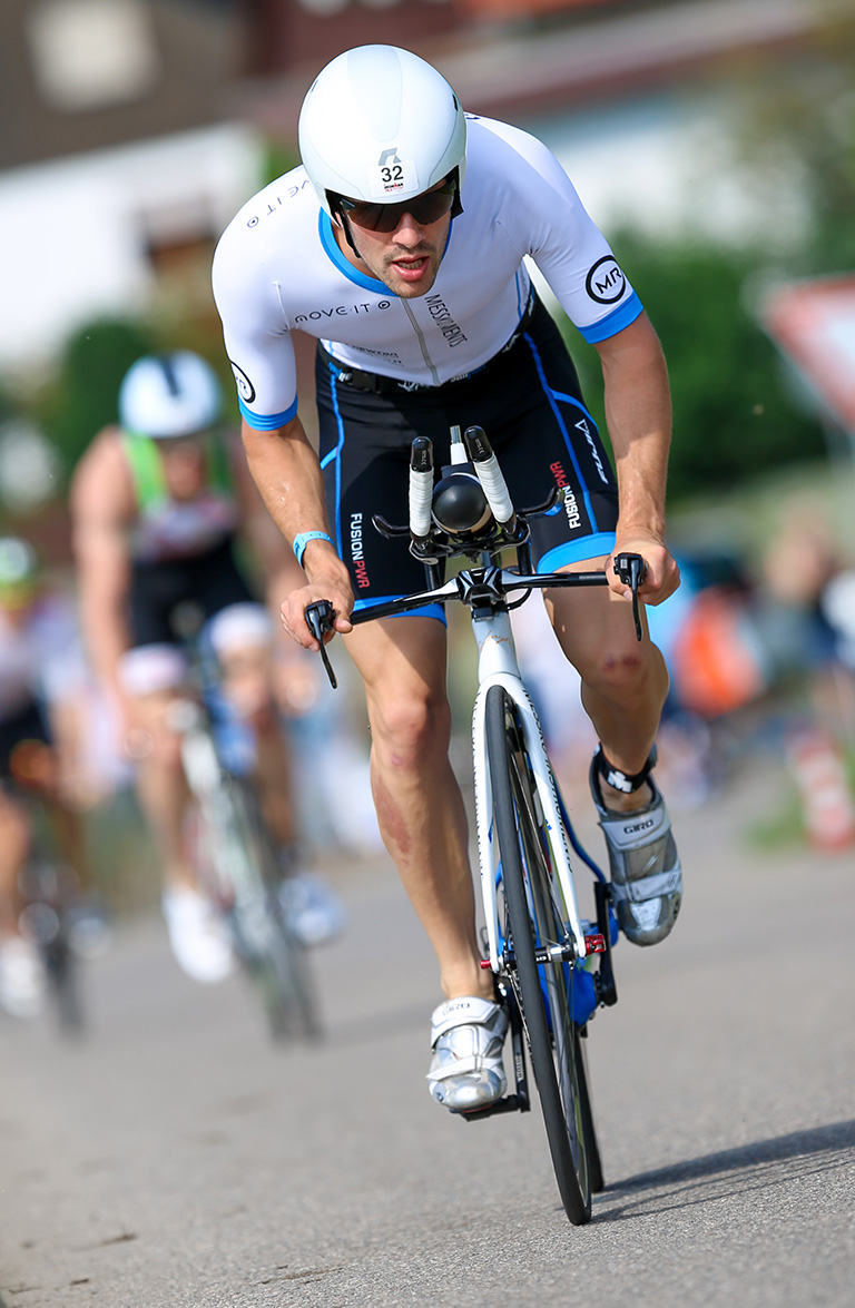 Patrick Lange on the bike at Ironman Kraichgau 70.3 in 2015. Photo by Marcel Hilger.